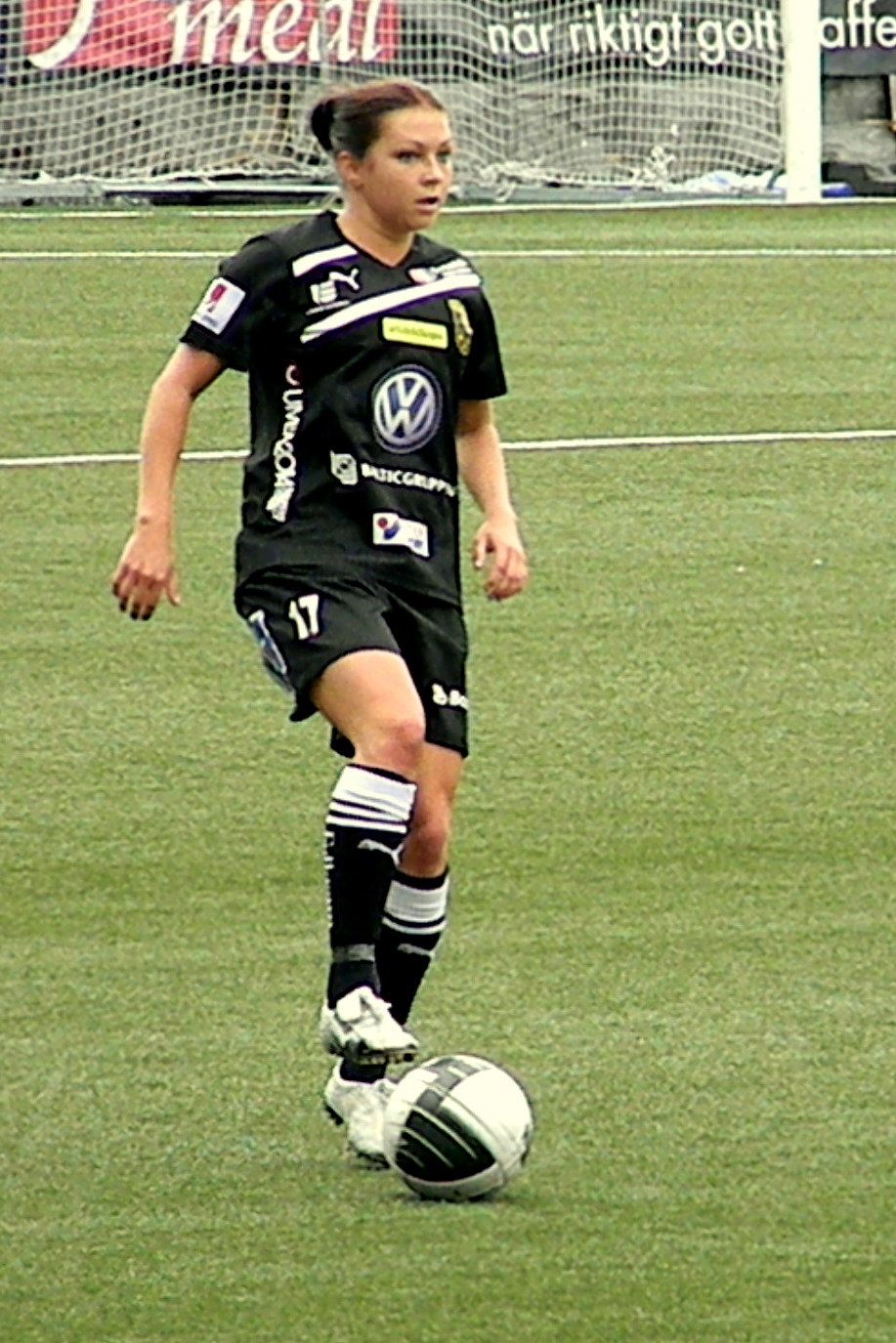 Pernilla Nordlund, a finnish player from Umeå IK